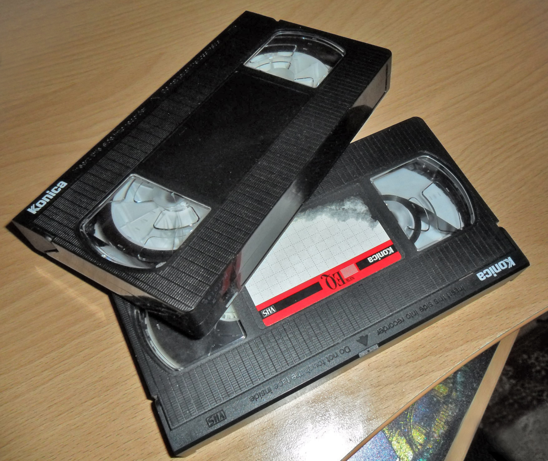 A comparison existed sizes of reel VHS